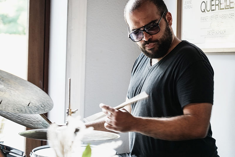 RJ Miller at Copenhagen Jazz Festival 2018